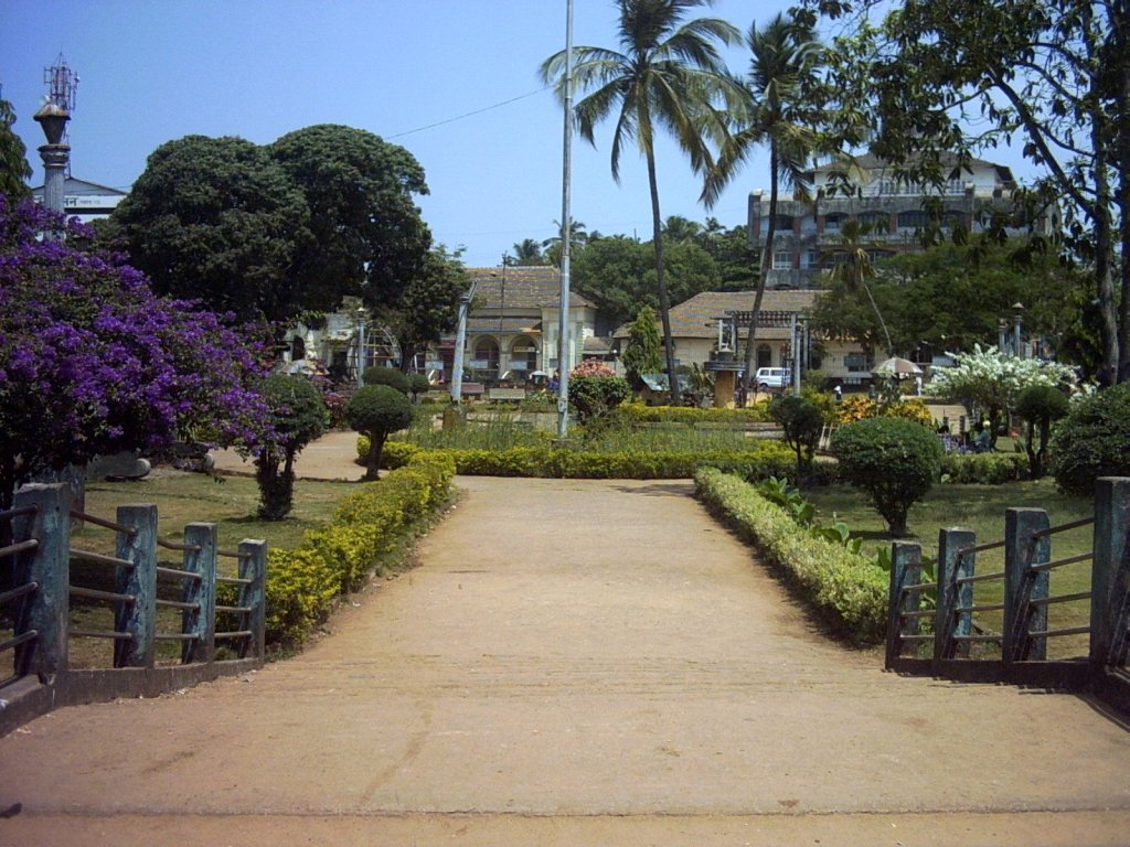 Municipal Garden, Margao, Goa, India Author:Amey Hegde Source URL